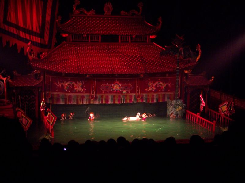 marionette theater in Hanoi